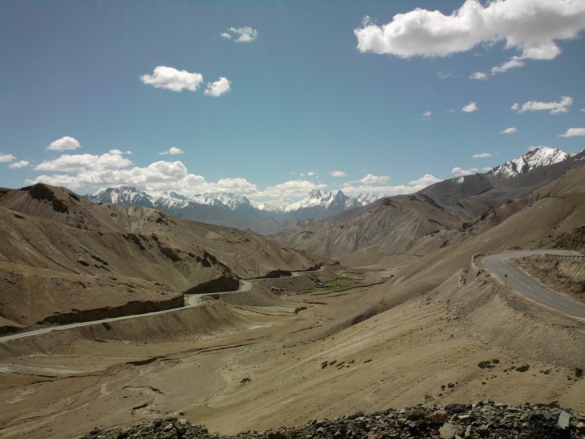 Fotu La, a mountain pass on the Srinagar-Leh highway in the Himalayas Zaskar Range, India